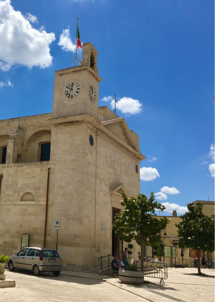 Chiesa Madre e orologio bifronte del 1883